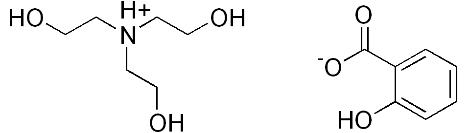 chemical structure of trolamine salicylate